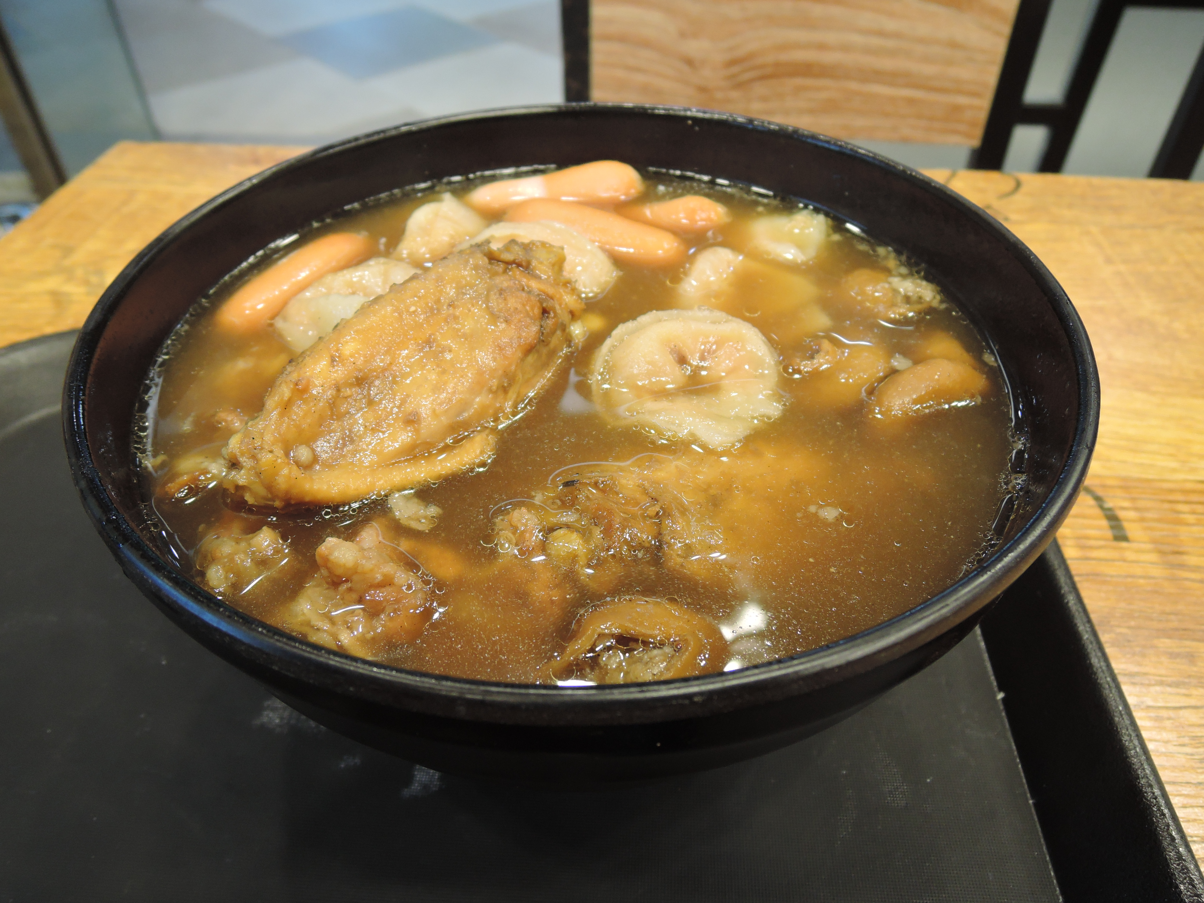 A cart noodles soup in local Chinese noodles shop at long ping pizza in Long Ping Estate at Yuen Long